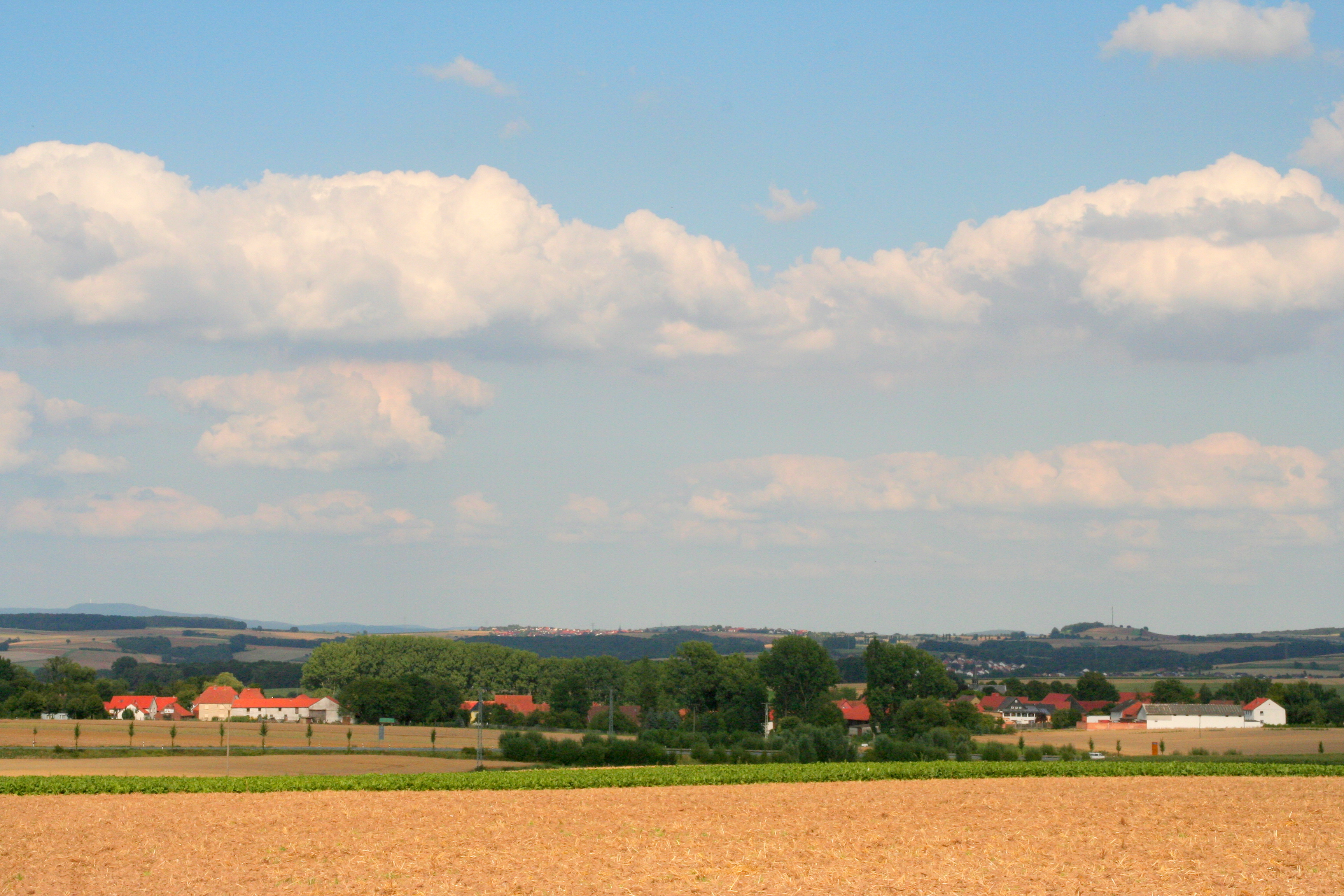 Esplingerode, district of Göttingen